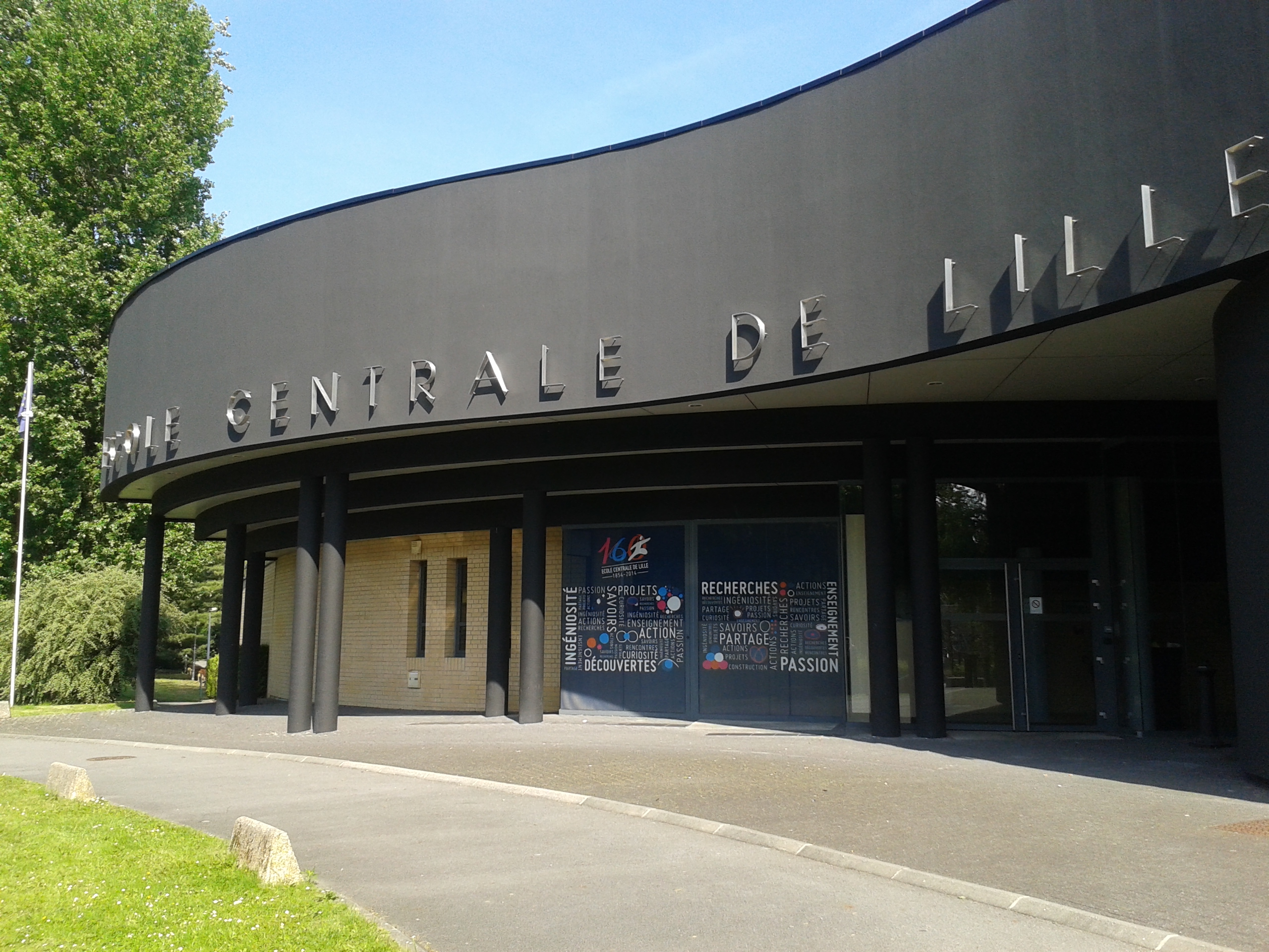 Entrance hall of École Centrale de Lille